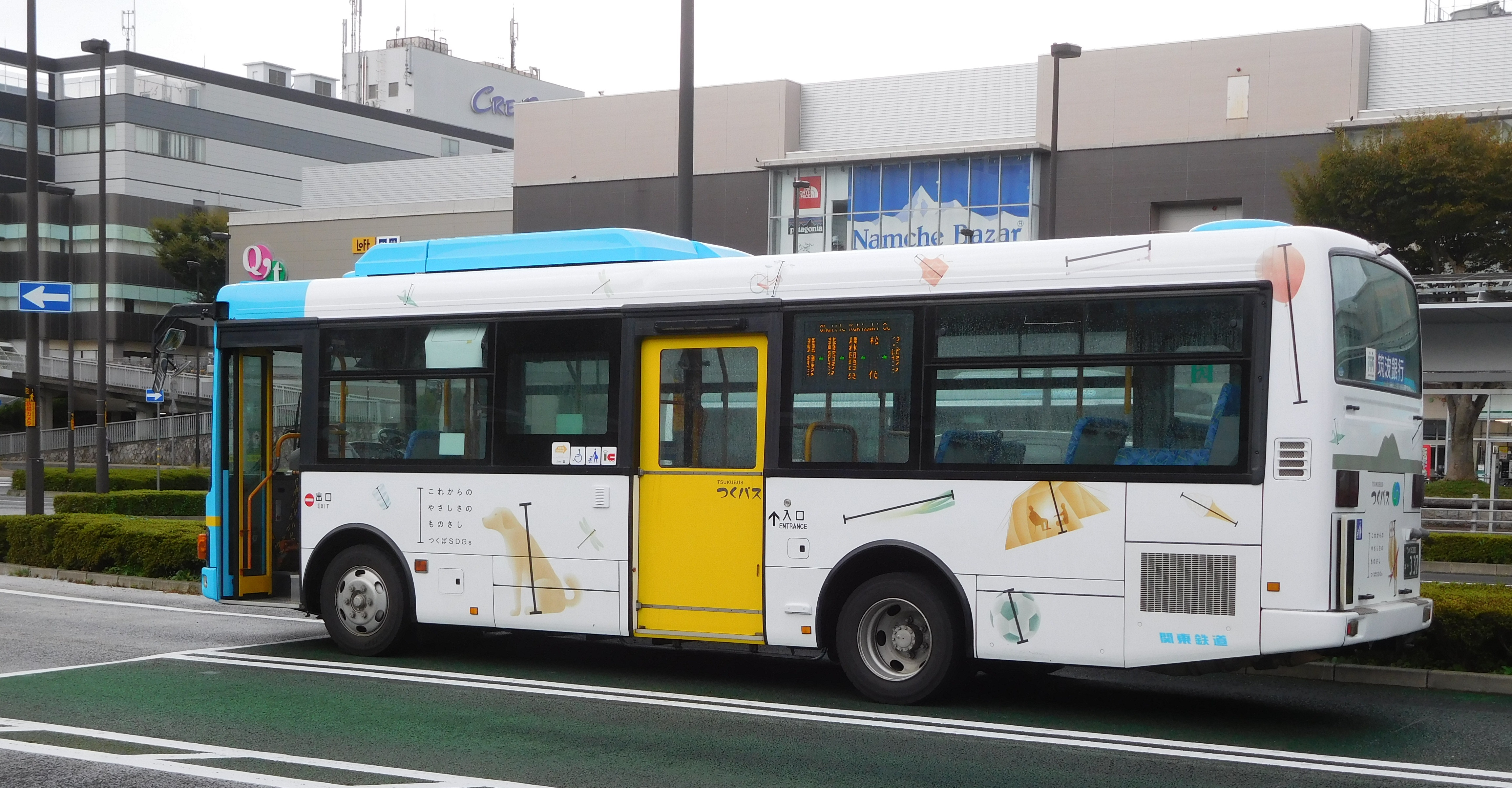 A new design bus for Tsuku bus in Tsukuba, Ibaraki, Japan.